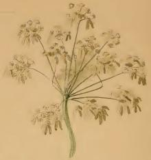 Stainton’s Natural History of the Tineina (1855–1873): Depressaria heydenii